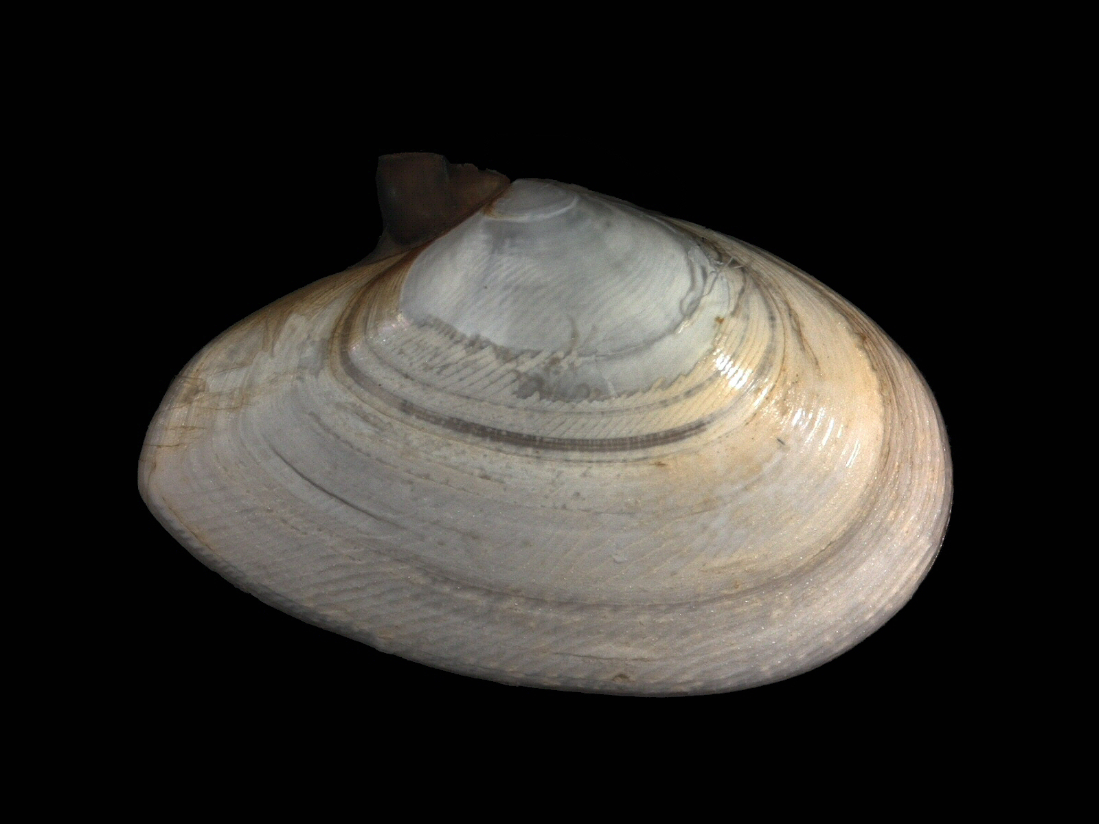 Taken with Axiocam (Zeiss) camera mounted on a Zeiss Stemi C-2000 binocular microscope. This bivalve was sampled on the Belgian Continental Shelf.